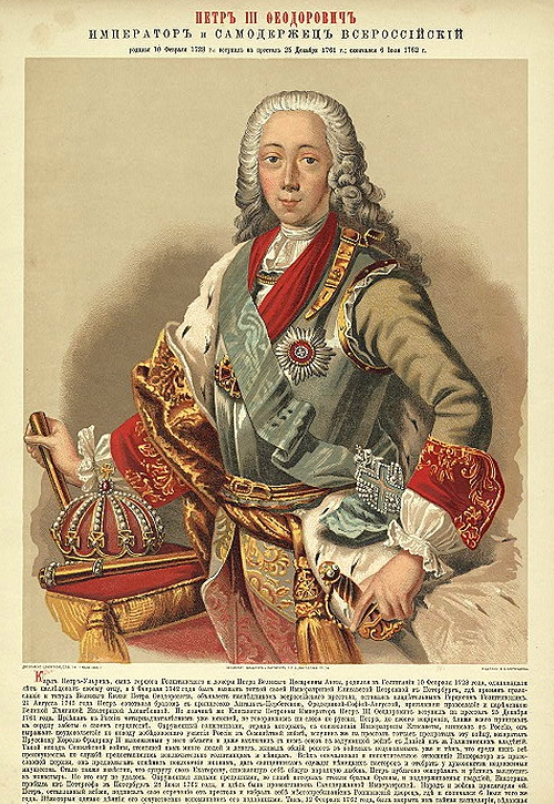 Peter III of Russia